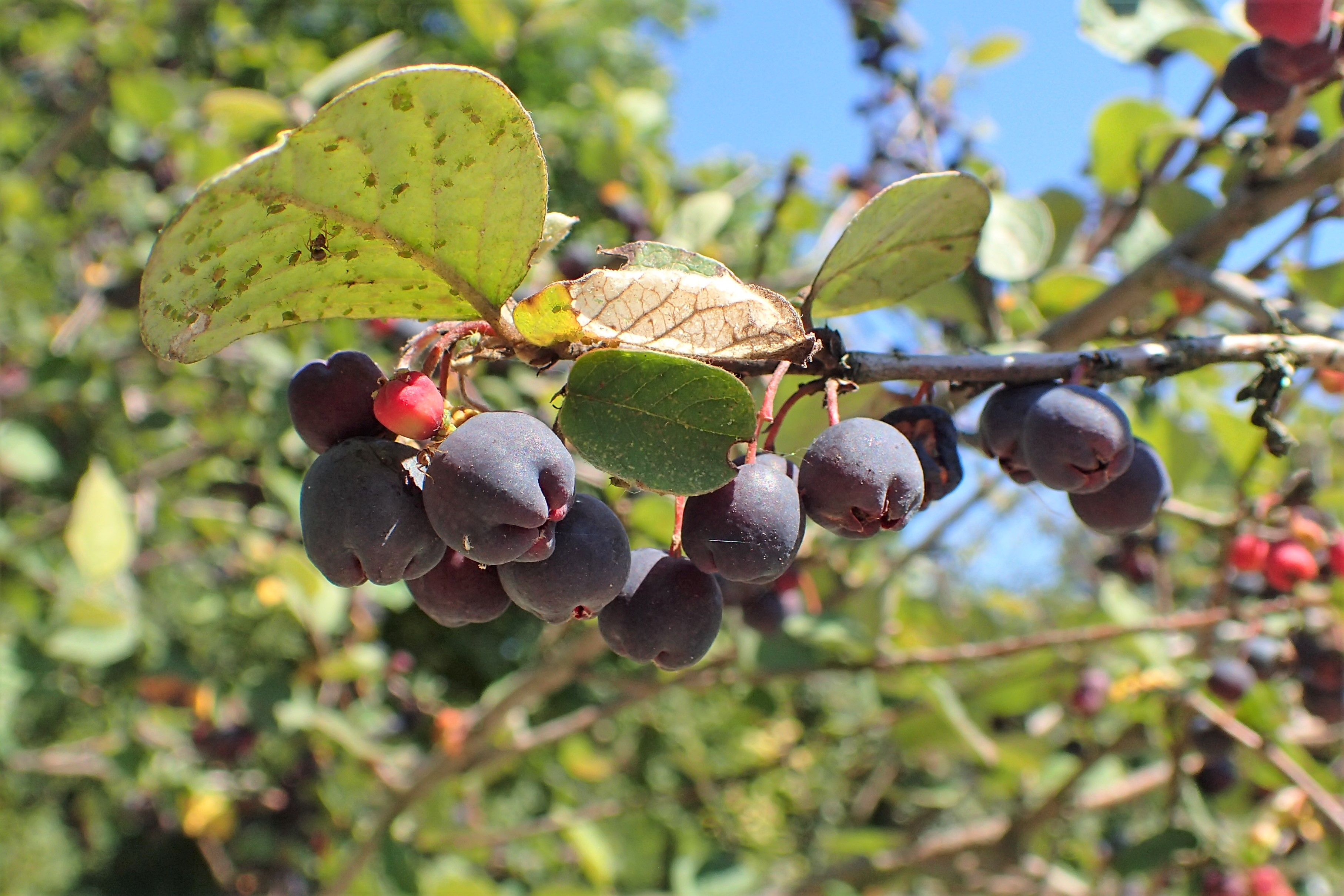 Cotoneaster melanocarpus in the UMCS Botanical Garden in Lublin